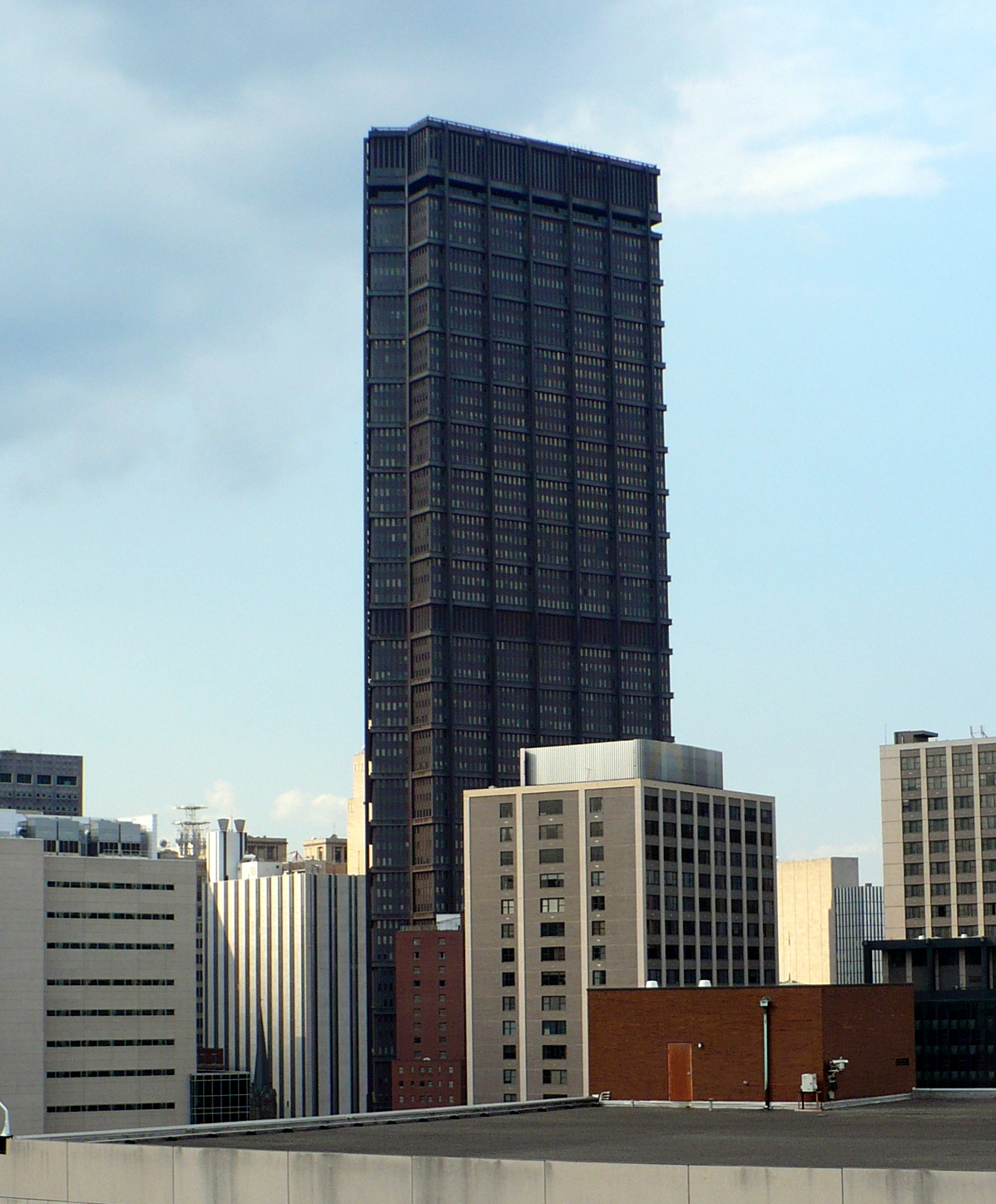 The U.S. Steel Tower in Pittsburgh, Pennsylvania. As seen from Duquesne University.